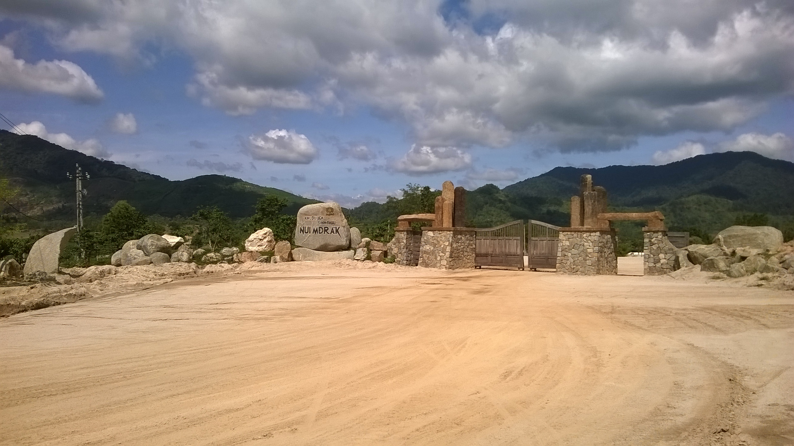 Cổng trước khu du lịch